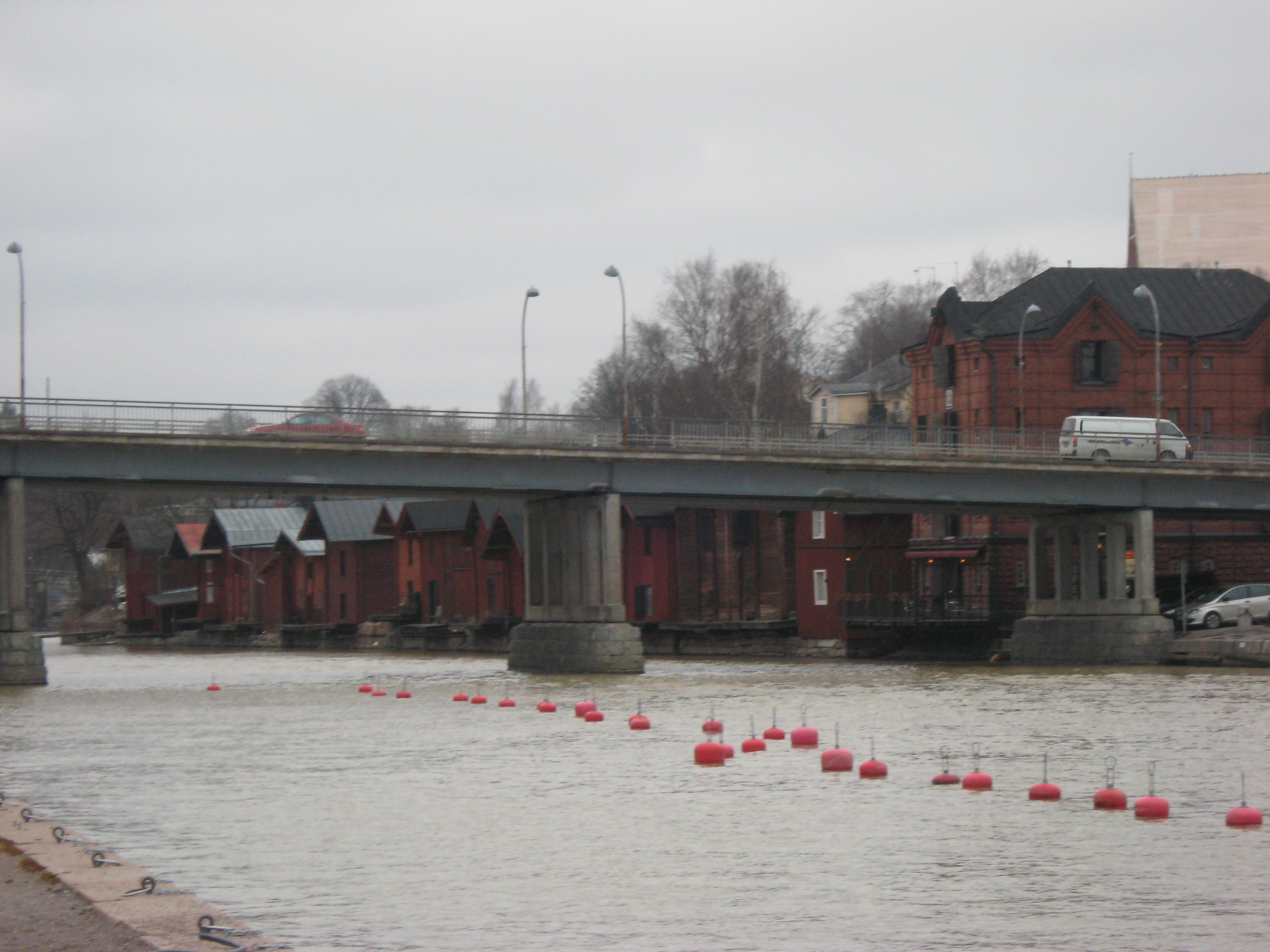 Porvoonjoki bridge in Porvoo, Finland